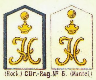 Shoulder boards of the Kürassier-Regiment (Brandenburgisches) Nr. 6.